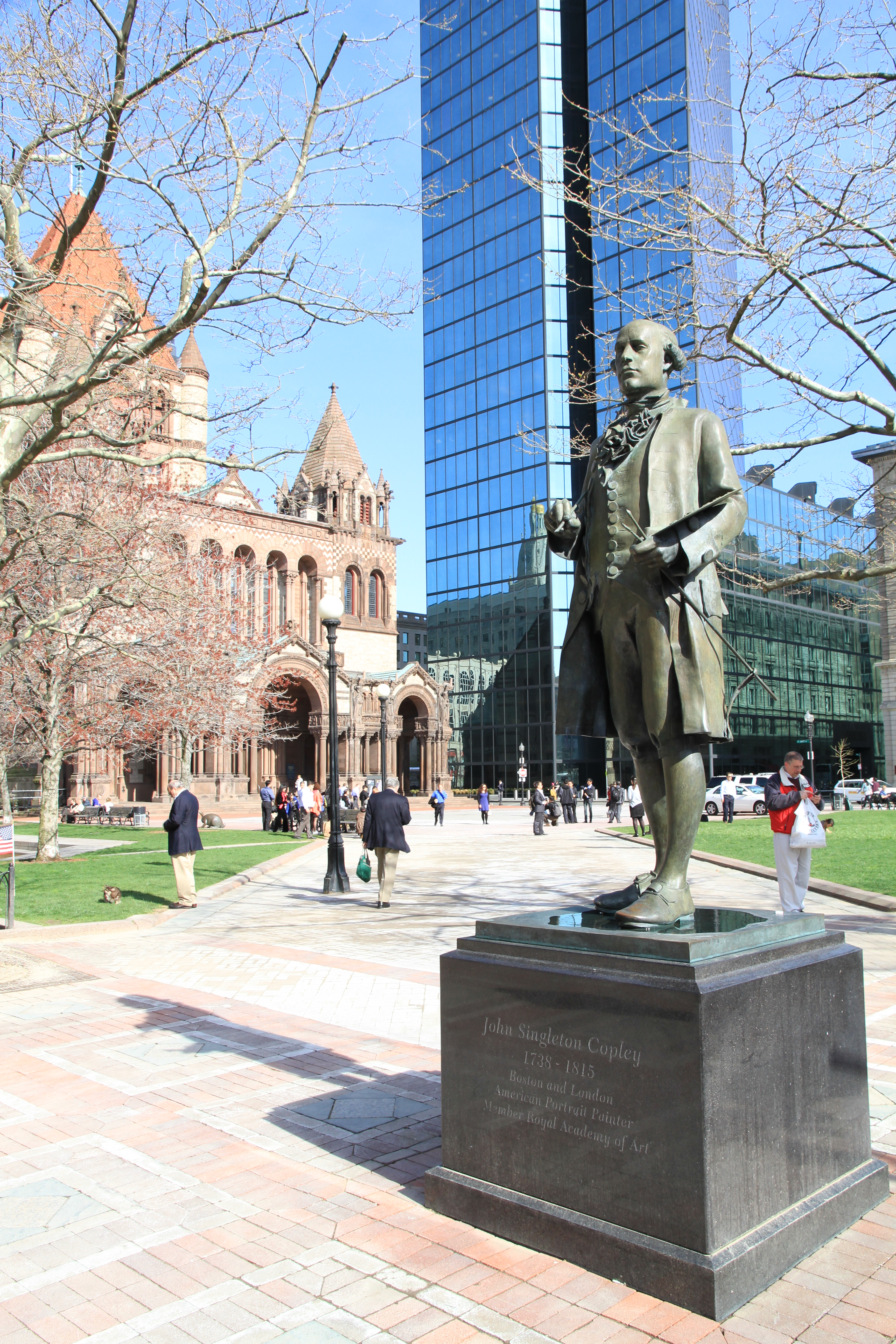 Copley Square, 2013